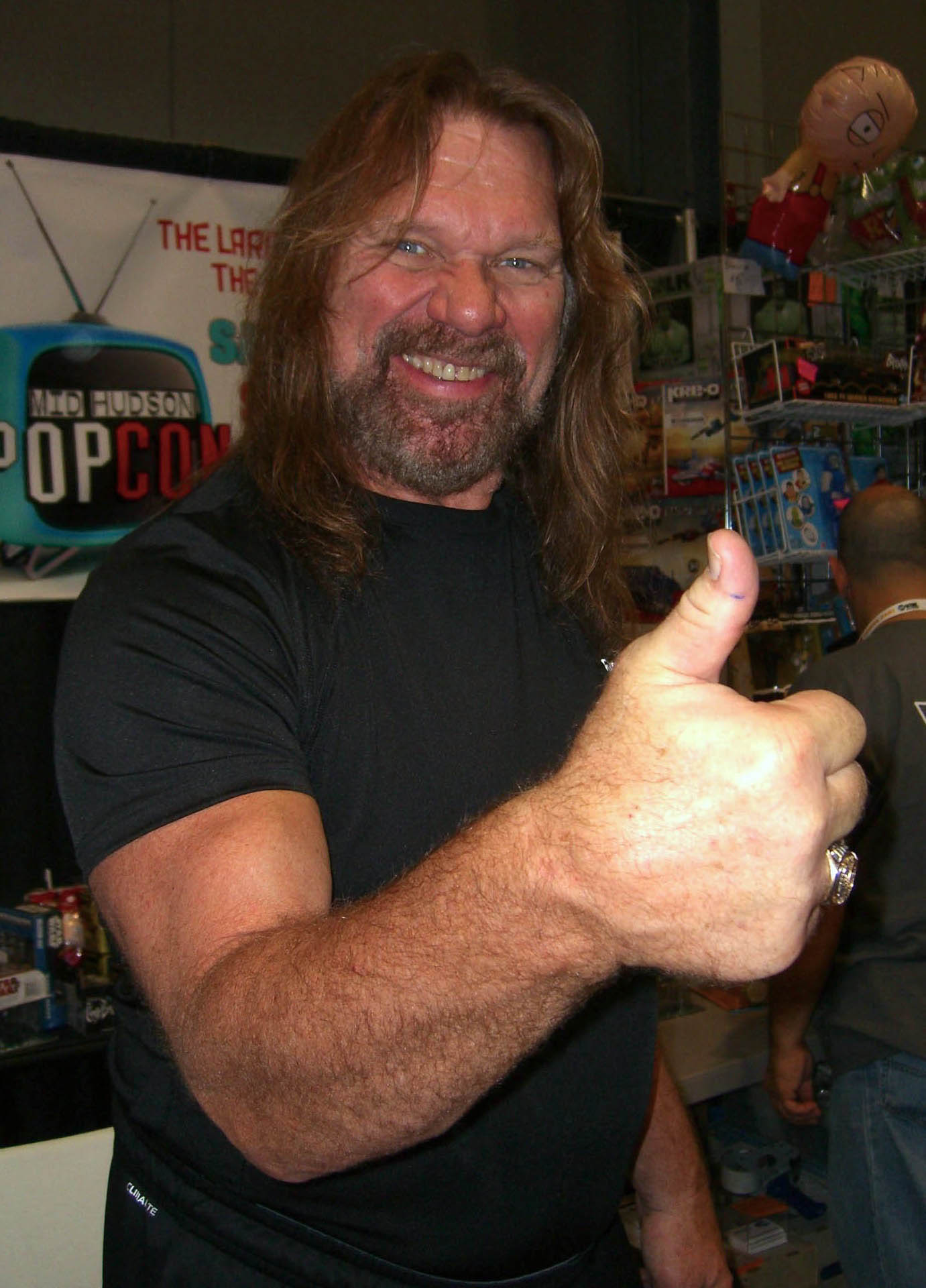 Professional wrestler "Hacksaw" Jim Duggan on Day 3 of the 2012 New York Comic Con, Saturday October 13, 2012 at the Jacob K. Javits Convention Center in Manhattan. This photo was created by Luigi Novi. It is not in the public domain, and use of this file outside of the licensing terms is a copyright violation.